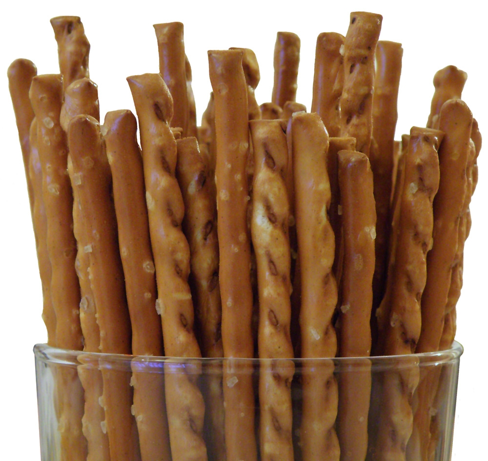 Saltsticks